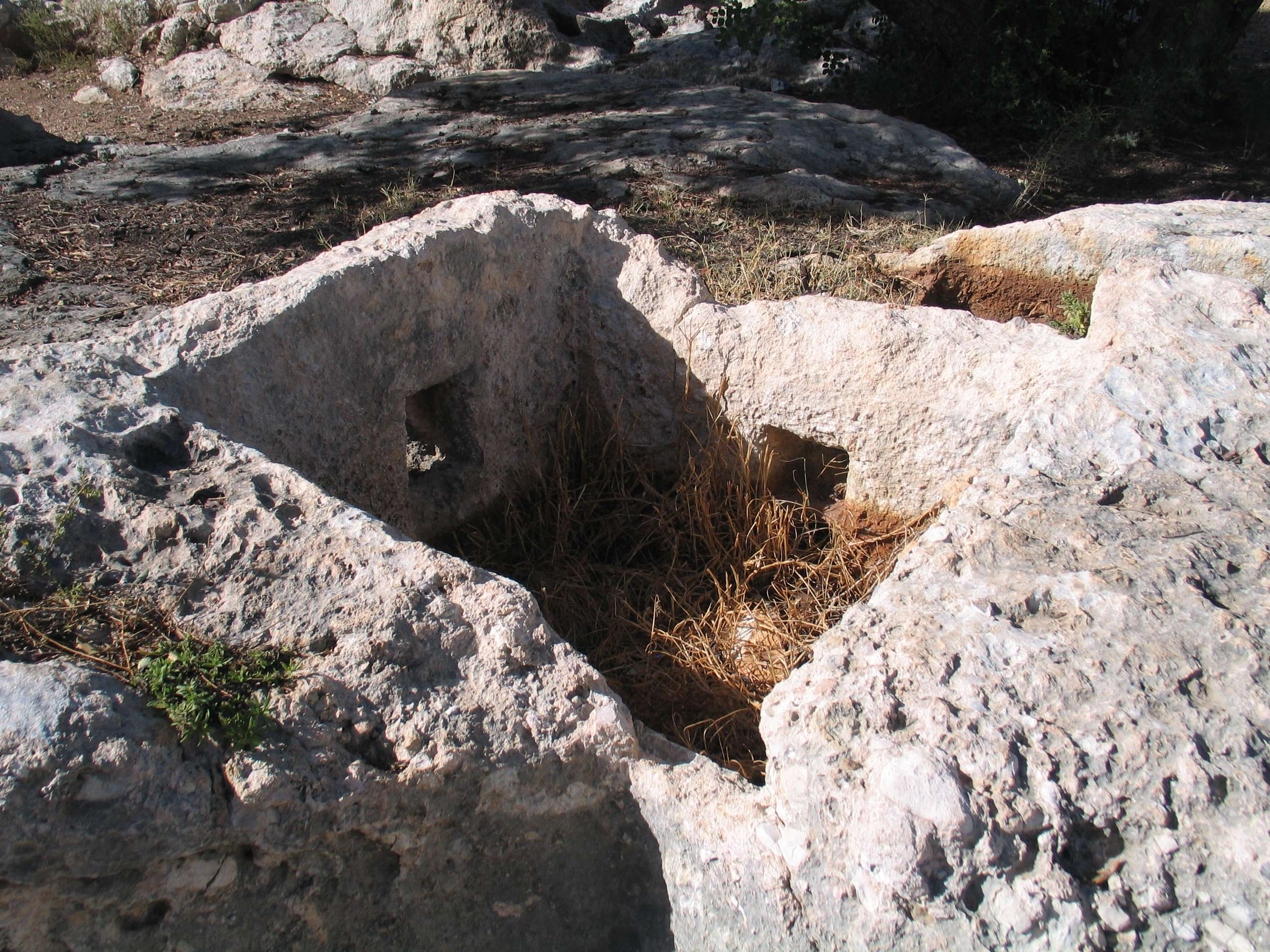 So called "tombs of the Maccabees" near Modiin, Israel.